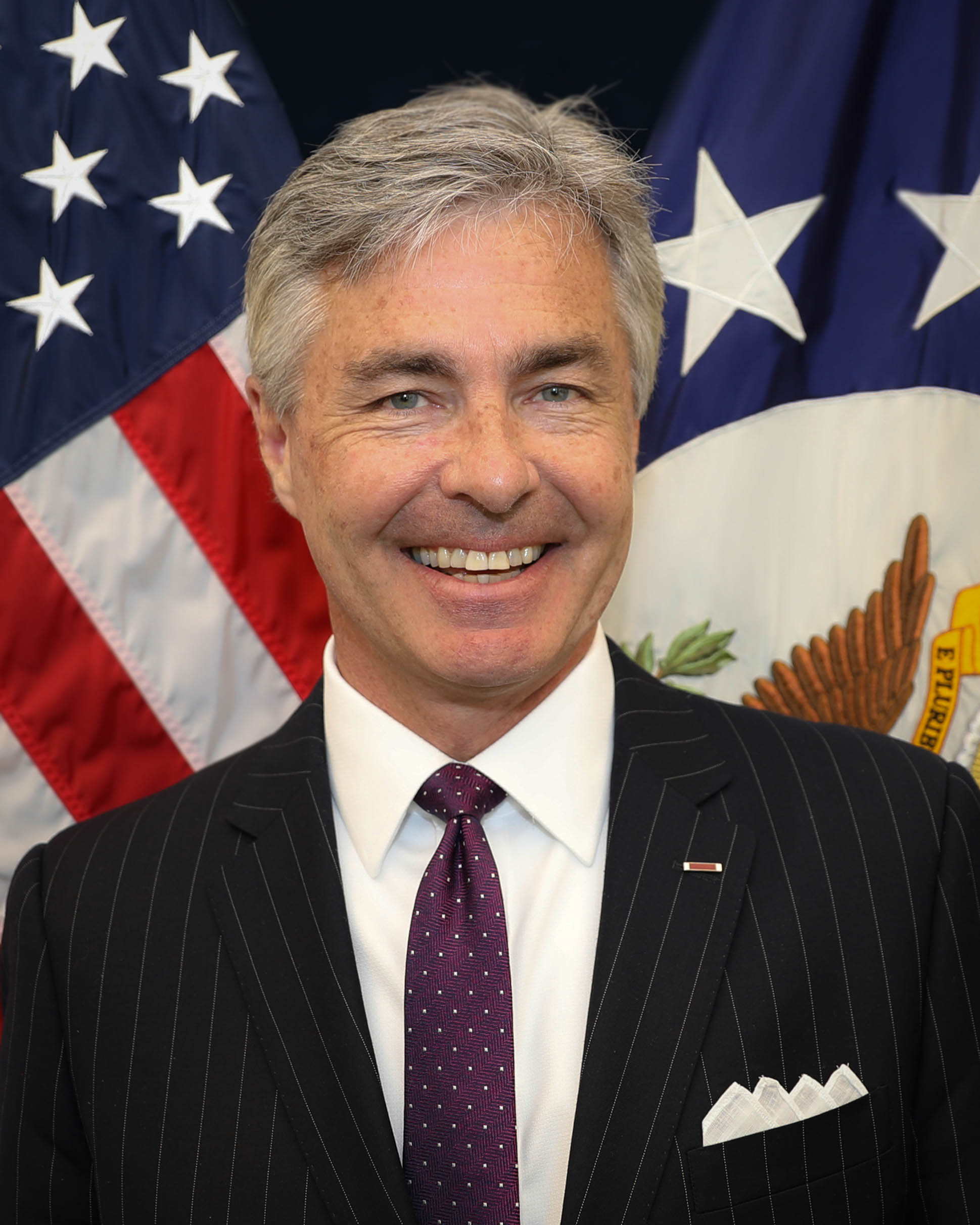 Kenneth J. Braithwaite official portrait